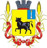 Syzran (Samara oblast), coat of arms (XIX century)